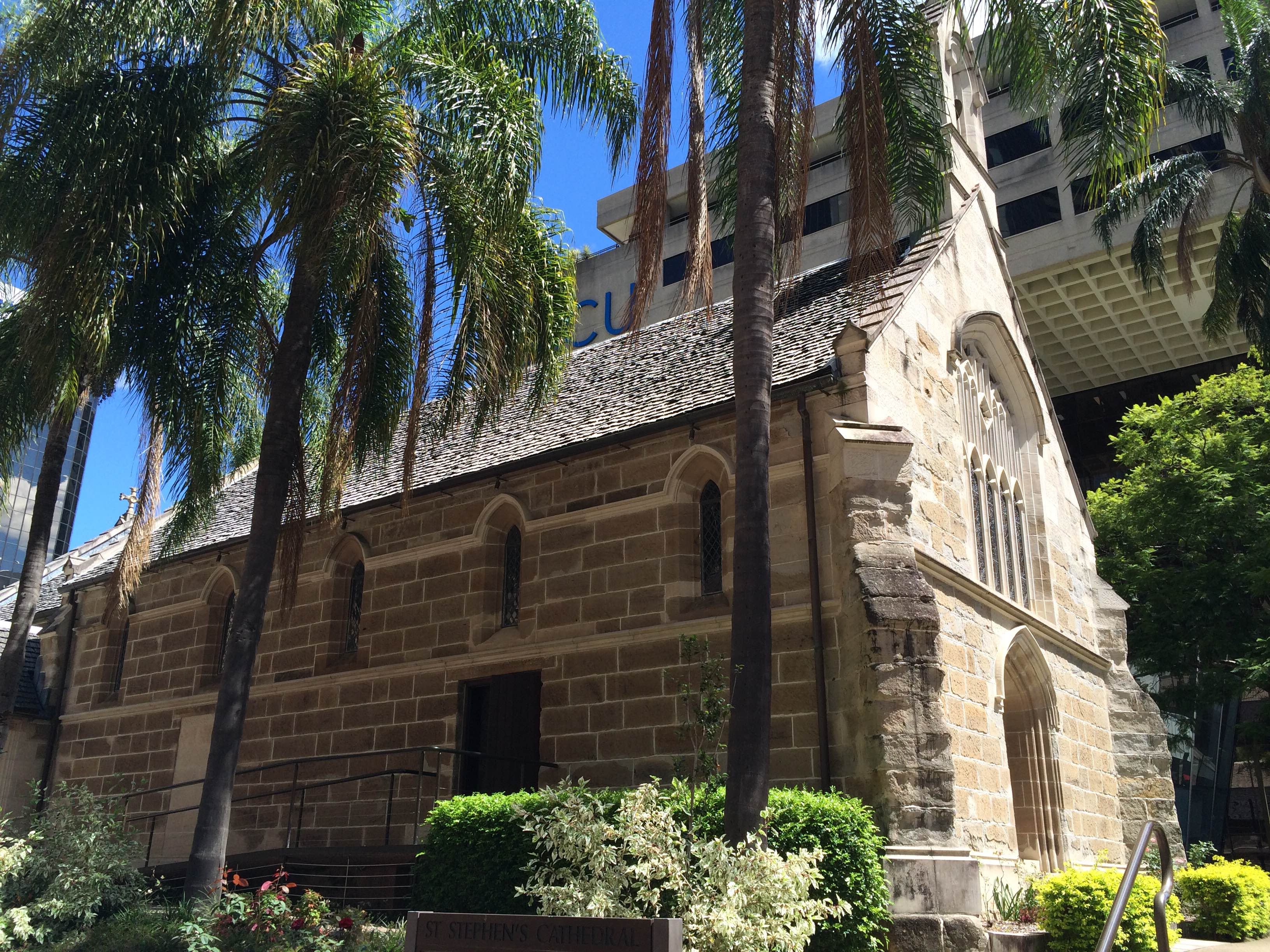 St Stephen's Chapel, Elizabeth Street, Brisbane